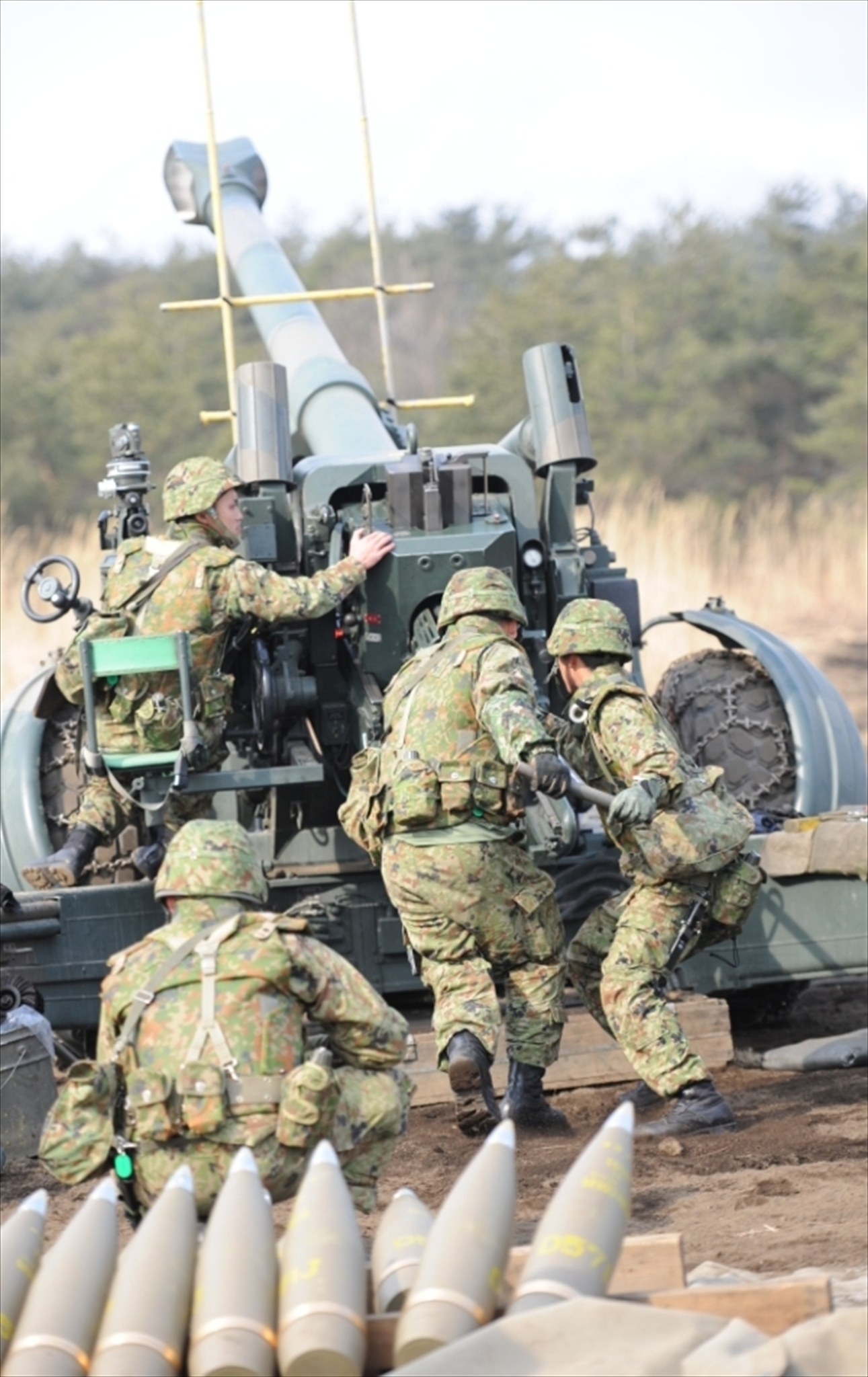 Title 130329i ９特射撃訓練 (1).JPG Album 装備 １５５ｍｍ榴弾砲ＦＨ７０（射撃訓練・第９特科連隊）